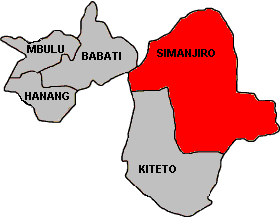 Created by Andrew Coe